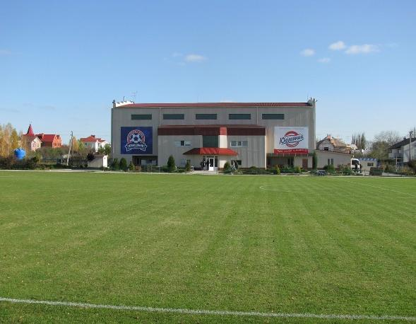 Yuvileyniy Stadium in Novooleksandrivka, Dnipro Raion, Dnipropetrovsk Oblast, Ukraine